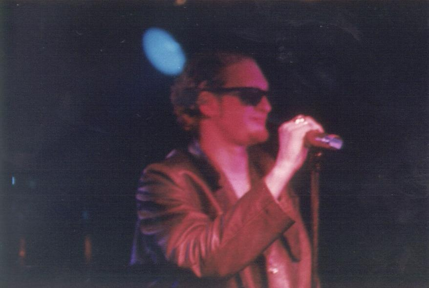 Layne Staley playing with Alice in Chains at The Channel in Boston, MA.